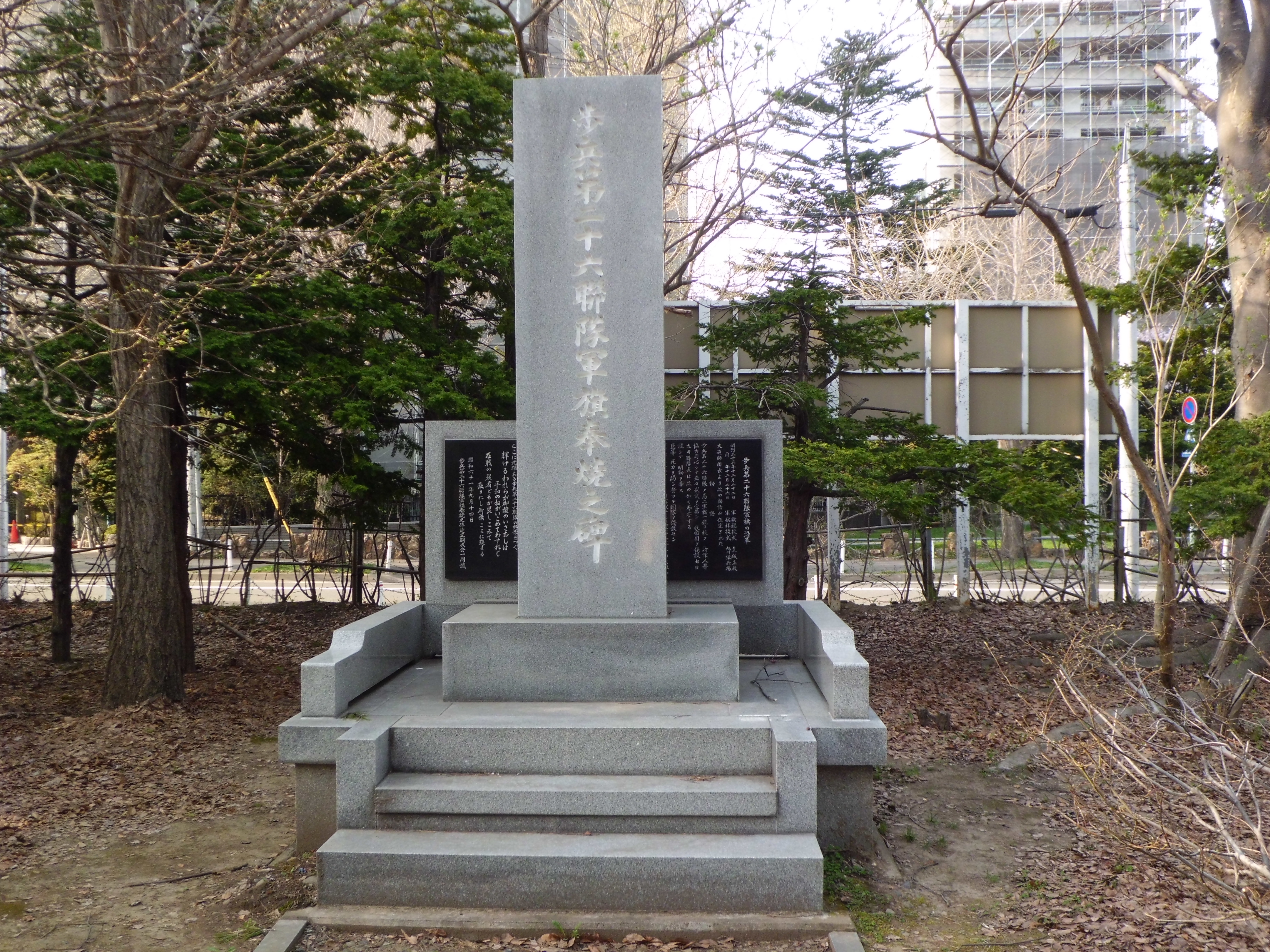 Monument to burning the Ensign of 26th infantry regiment